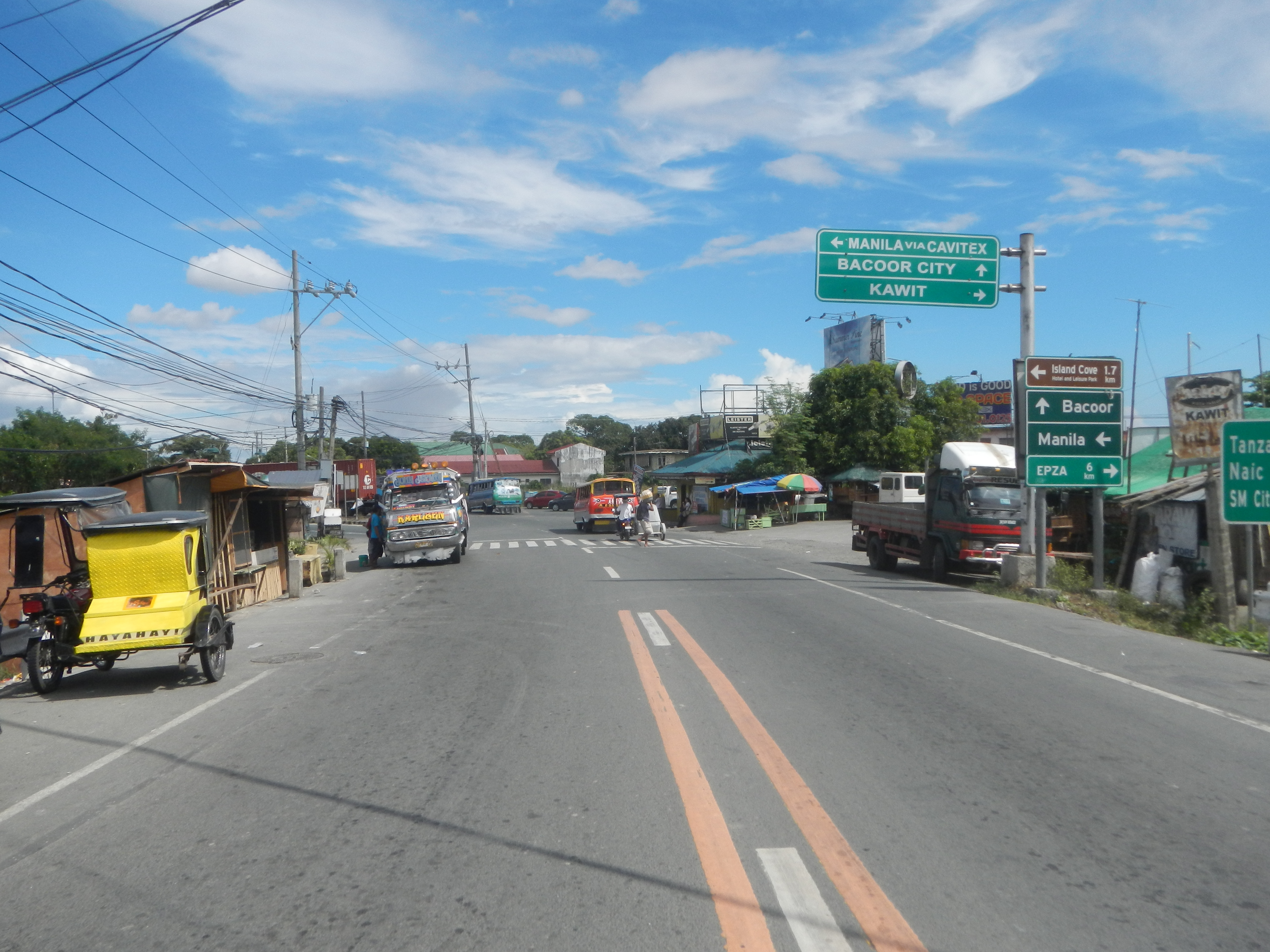 Antero Soriano Highway - General Tirona Highway Junction (Kanluran, Binakayan, Kawit, Cavite) Barangays Marulas, Kawit, Cavite 14°26'47"N 120°54'39"E Kaingen, Kawit, Cavite 14°27'1"N 120°54'22"E Panamitan, Kawit, Cavite 14°26'18"N 120°53'45"E Magdalo (Putol), Kawit, Cavite 14°25'52"N 120°53'32"E Santa Isabel, Kawit, Cavite 14°26'44"N 120°53'22"E Kawit, Cavite along General Tirona Highway corner Antero Soriano Highway Philippine highway network (Note: Judge Florentino Floro, the owner, to repeat, Donor Florentino Floro of all these photos hereby donate gratuitously, freely and unconditionally all these photos to and for Wikimedia Commons, exclusively, for public use of the public domain, and again without any condition whatsoever).